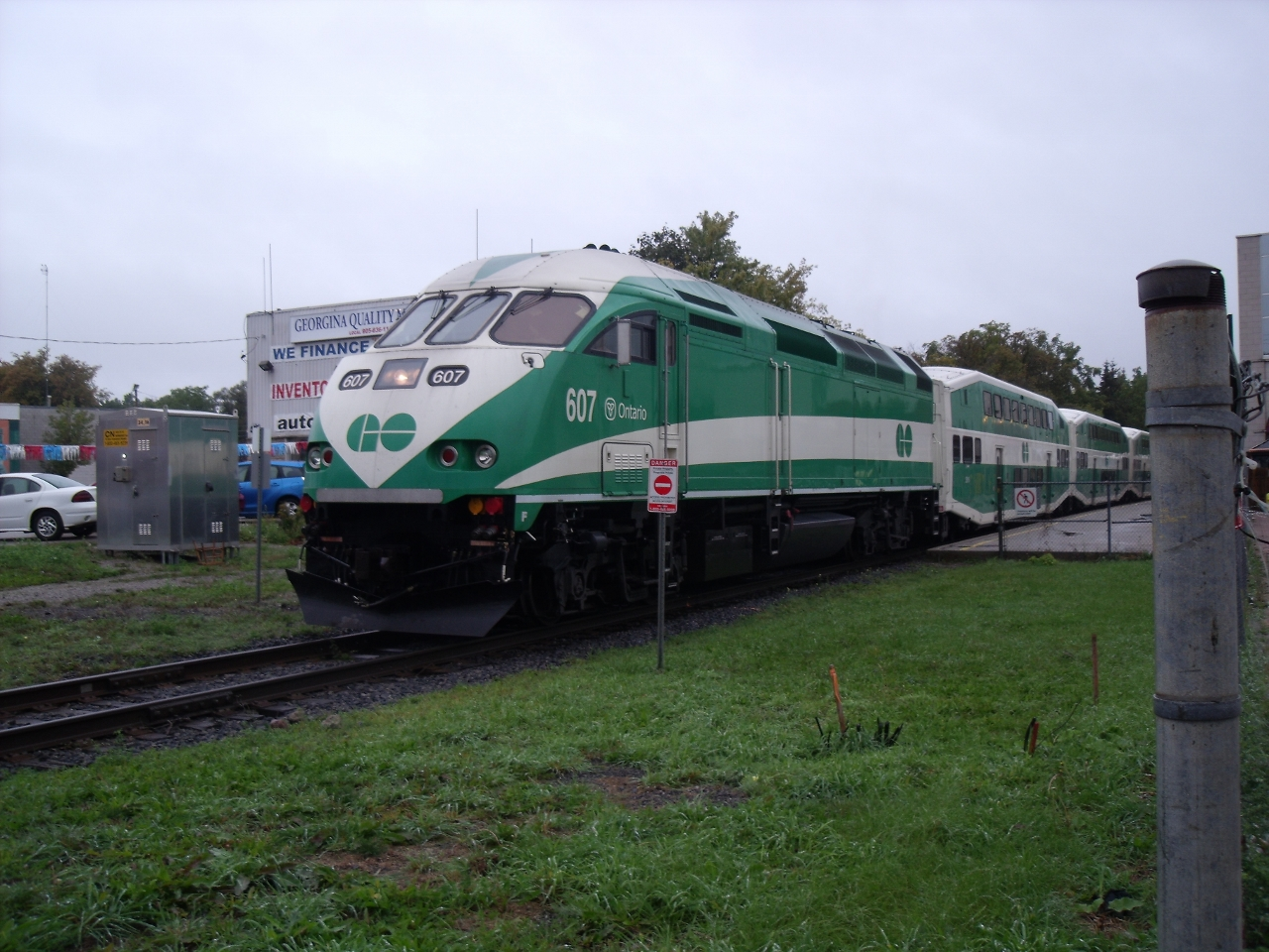 Newmarket Ontario GO Train. Trains operate Monday to friday rush hours. The trains are primairly pulled/pushed by MPI MP40 locomotives, which replaced most of the older EMD F59PH locomotives. The new MP40 is more powerful, allowing it to pull 12 coaches instead of 10. They are manufactured by Wabtec Corporation which is an American company formed by the merger of the Westinghouse Air Brake Company and MotivePower Industries Corporation in 1999.